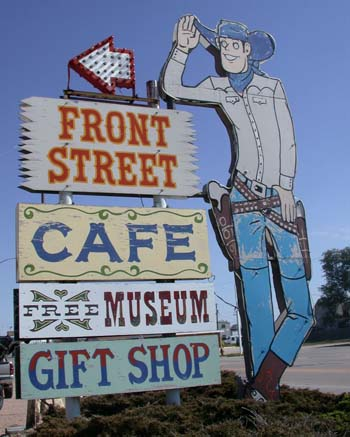 Sign for Front Street in Ogallala (taken Oct. 4, 2004)